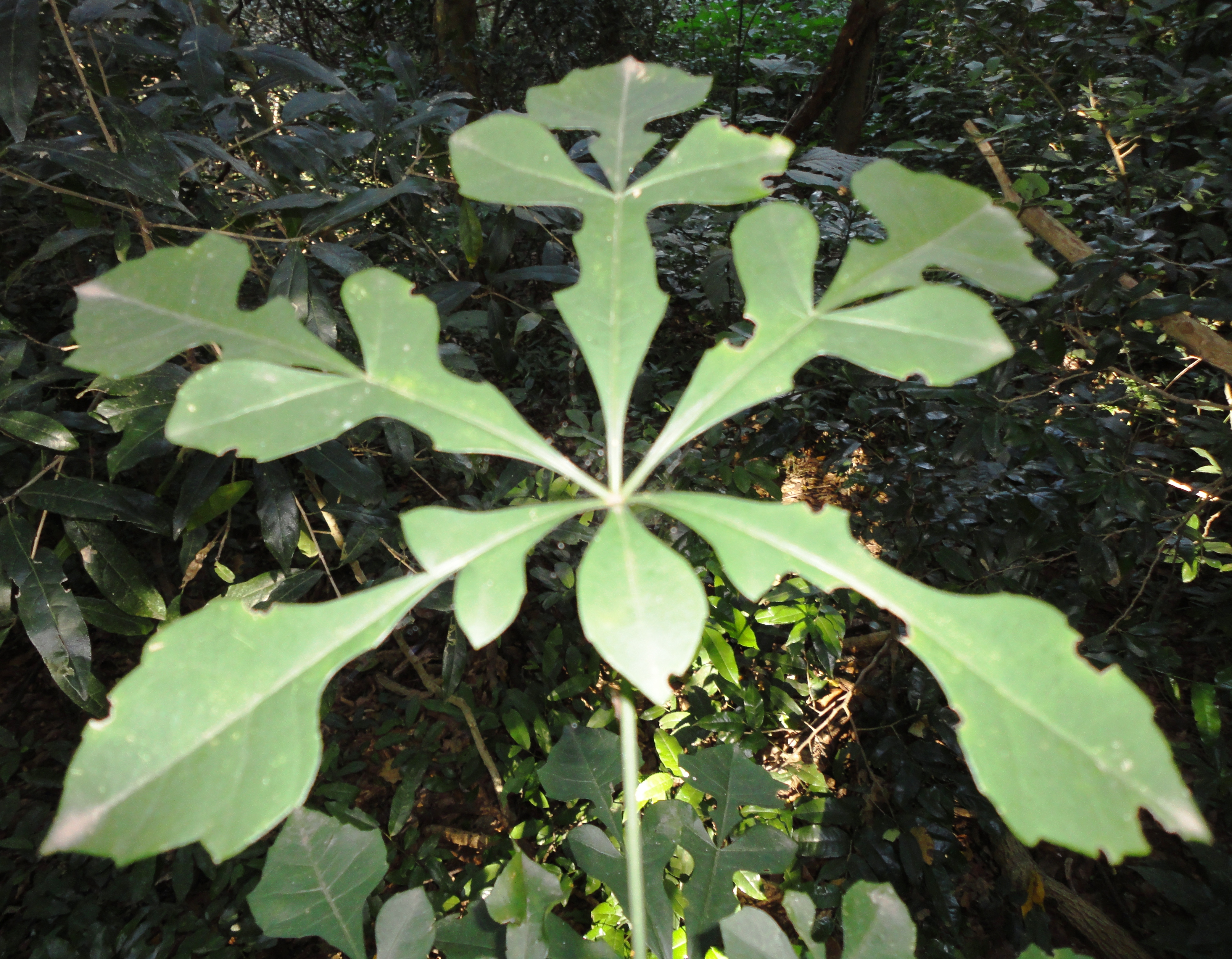 Compound leaf of a Wedge-fruited cabbage tree, Burman Bush Nature Reserve, Durban